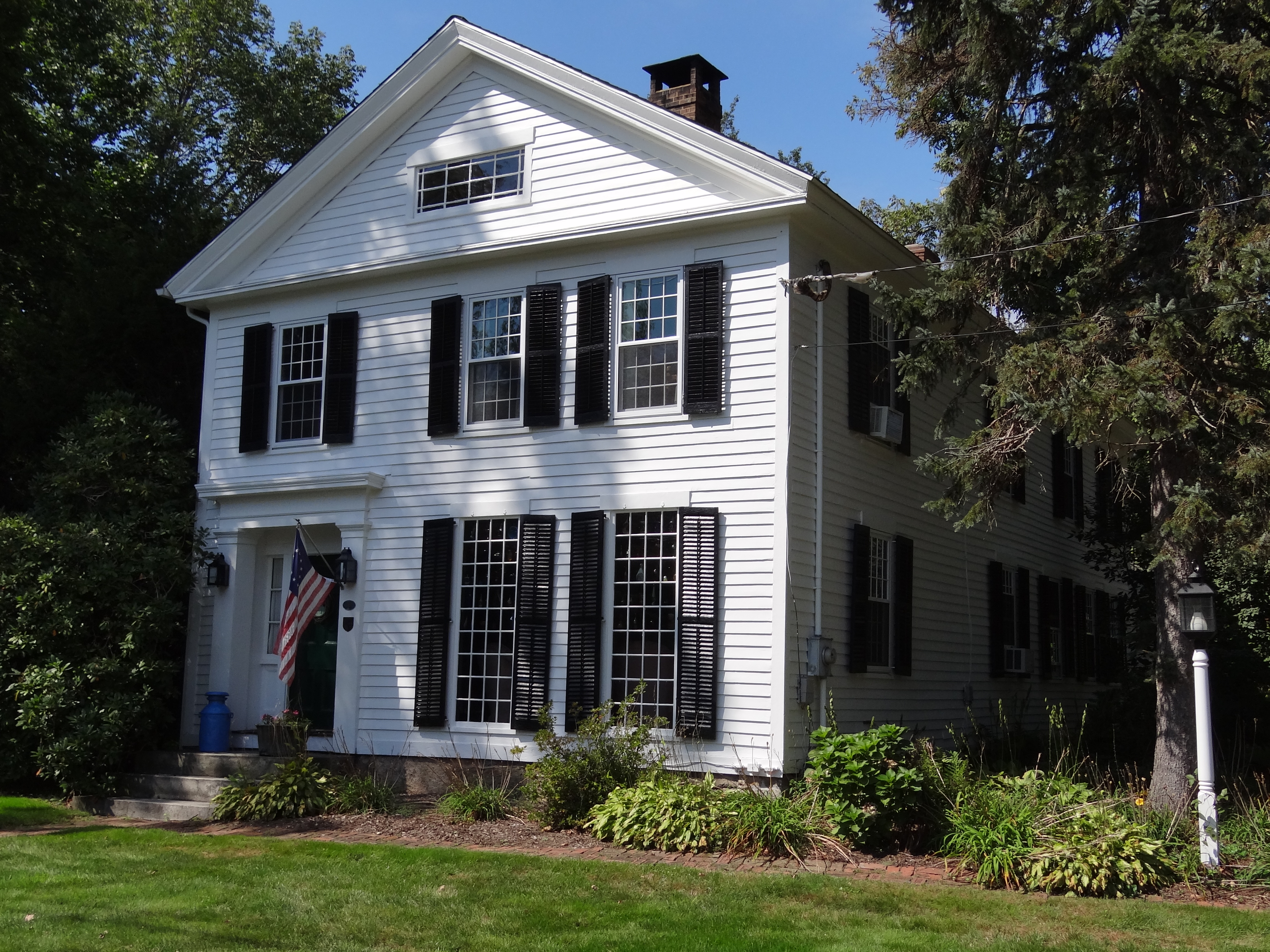 This is a recent photo of Asa Barnes Tavern aka Levi B. Frost House in Marion, CT